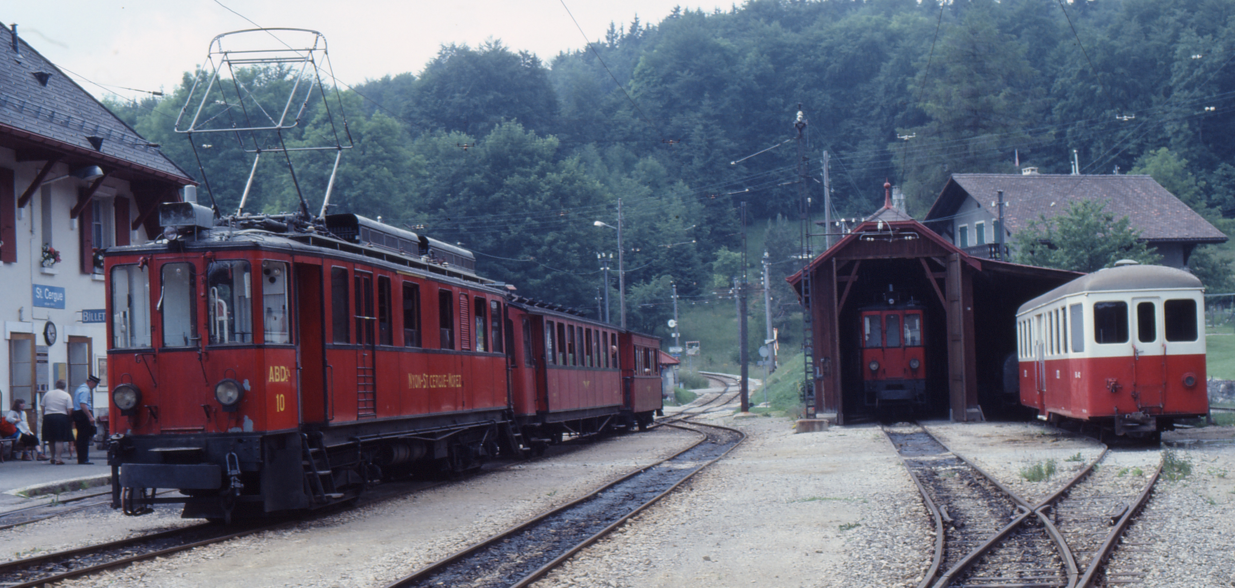 NStCM Historic Train at St. Cergue ABDe 4/4 10 and Depot